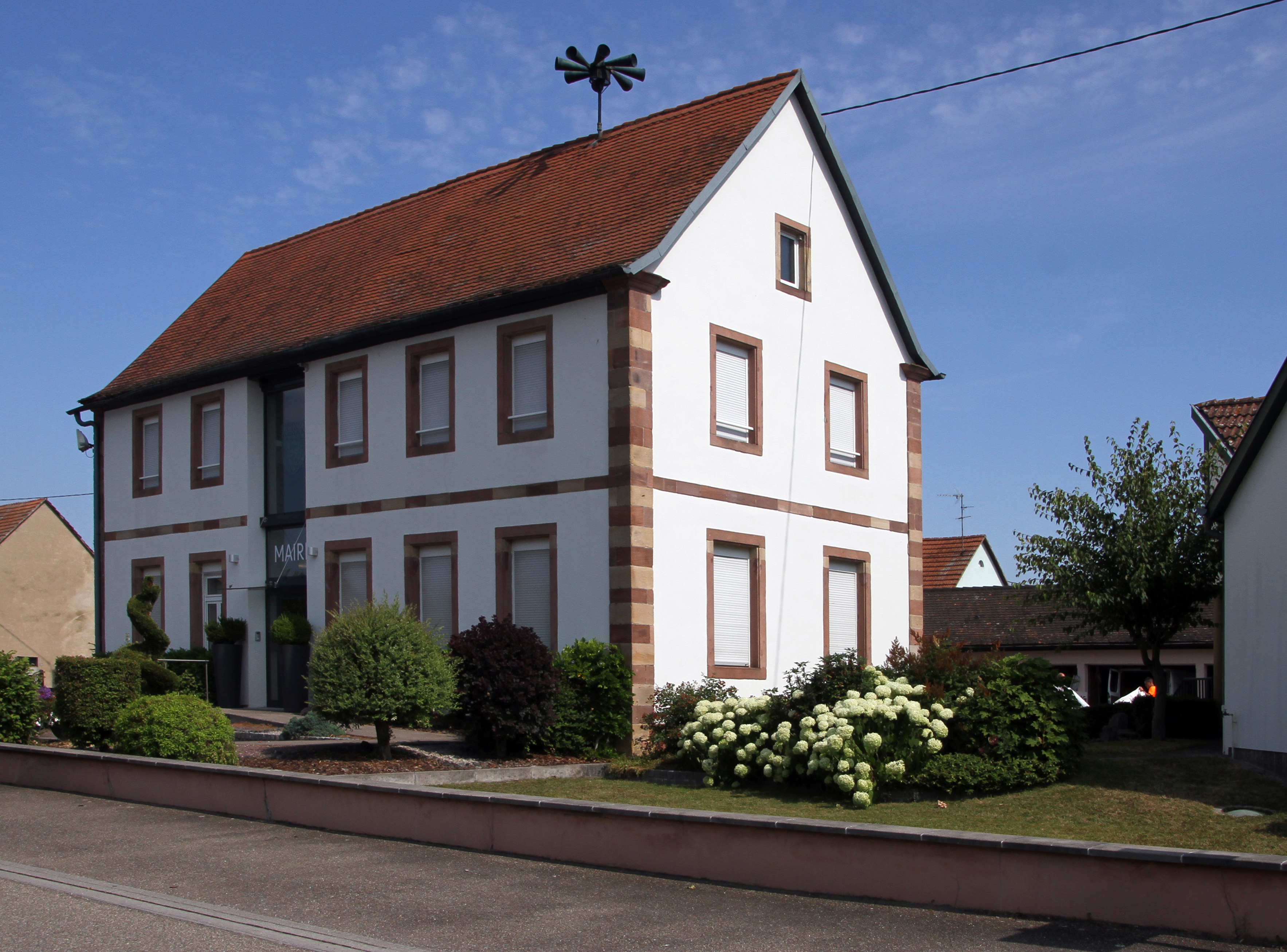 Town hall of Fort-Louis (Bas-Rhin).